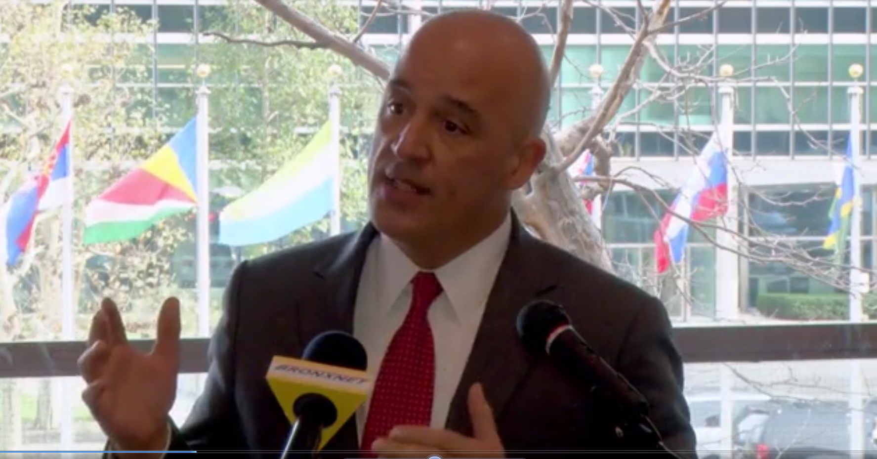 Dr. William Latimer giving speech at UN